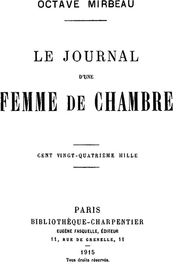 A Chambermaid's Diary (1900) by Octave Mirbeau (1848-1917)